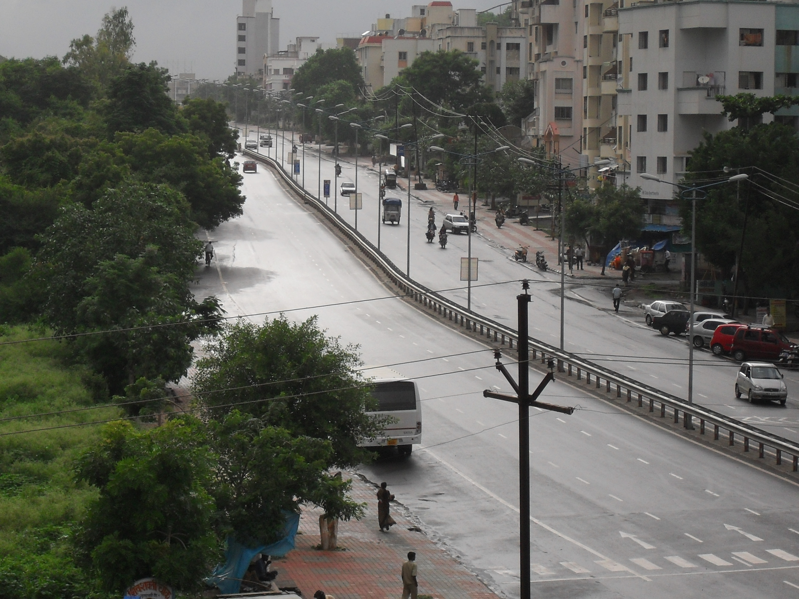 Susroadrain